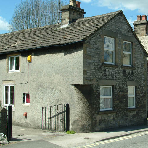 The house that Samuel Fox was born in, in 1815